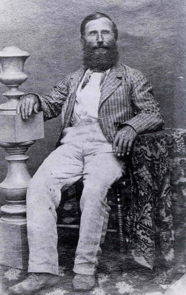 Charles Wright